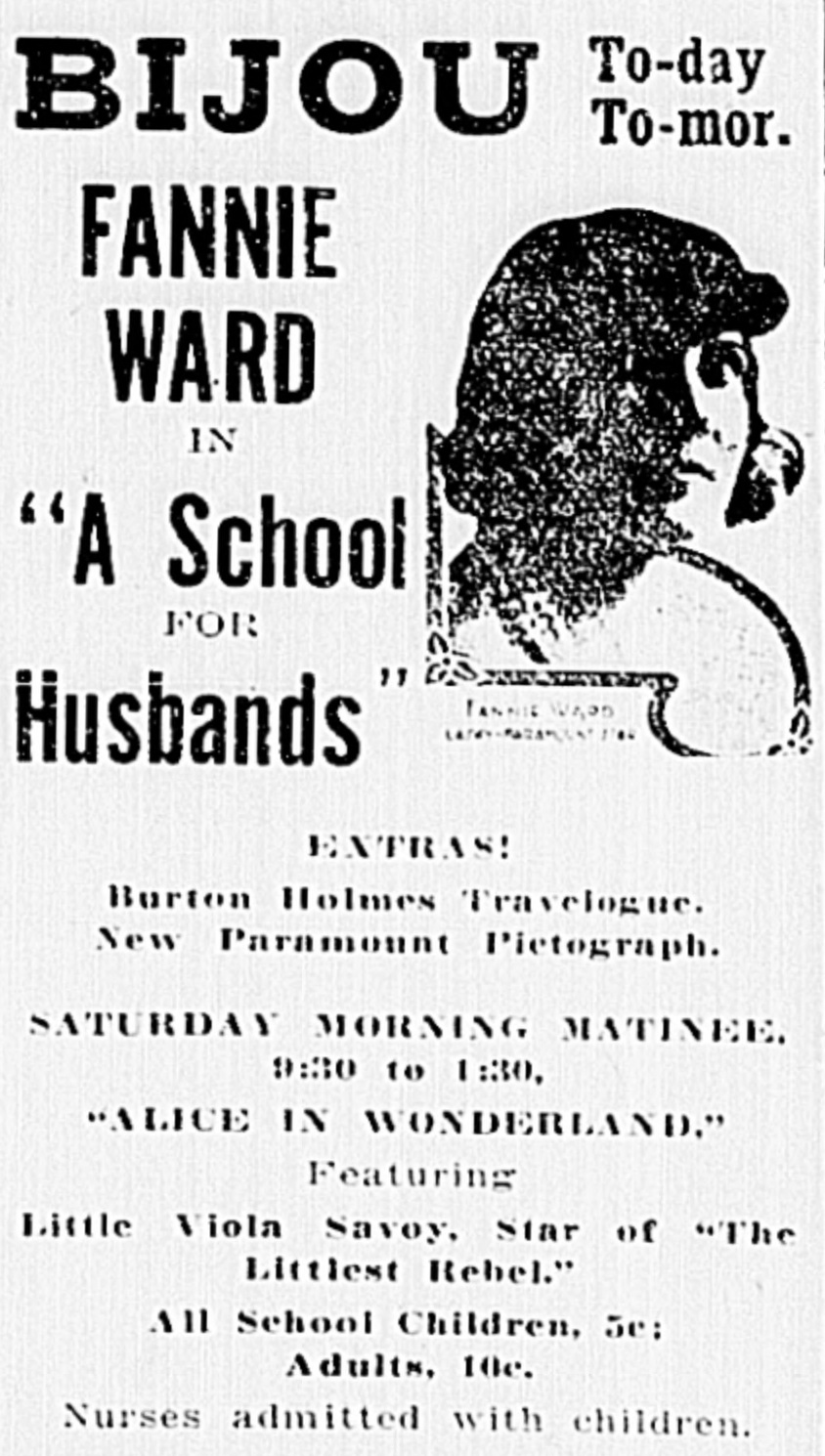 A School for Husbands is a 1917 American comedy silent film directed by George Melford and written by Hugh Stanislaus Stange and Harvey F. Thew. This is a newspaper advert for the film.